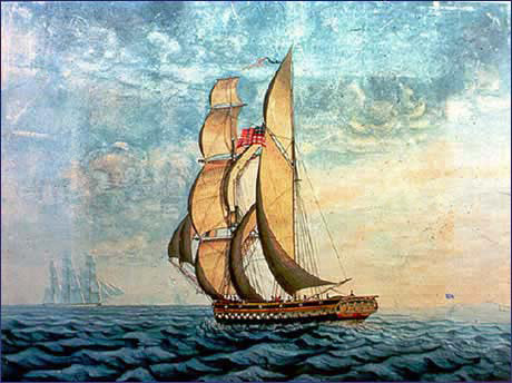 Cleopatra's Barge was a yacht built in Massachusetts in 1816 which sailed across the Atlantic (including a visit to Napoleon). It was then sold to King Kamehameha II of Hawaii, who used it as a royal yacht. It sunk in the Hawaiian Islands in 1824 off the northern coast of Kaua'i on Hanalei Bay.